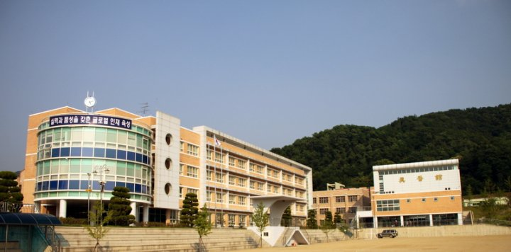 Entrance to Cheonan Girls' High School, Cheonan, South Korea